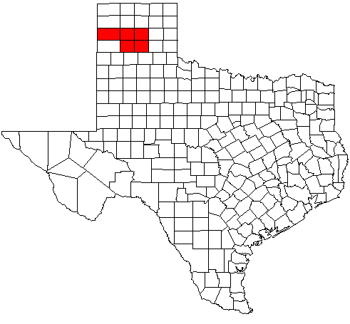 Map of Texas highlighting the Amarillo Metropolitan Statistical Area; created with the GIMP. Made by User:Acntx.